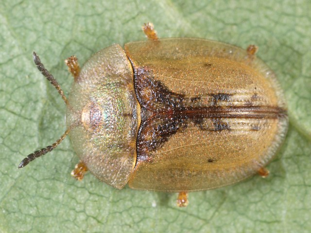 Cassida vibex Location: The Netherlands - Buren - Tichelgaten Buren